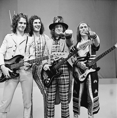 Slade in AVRO's TopPop (Dutch television show) in 1973